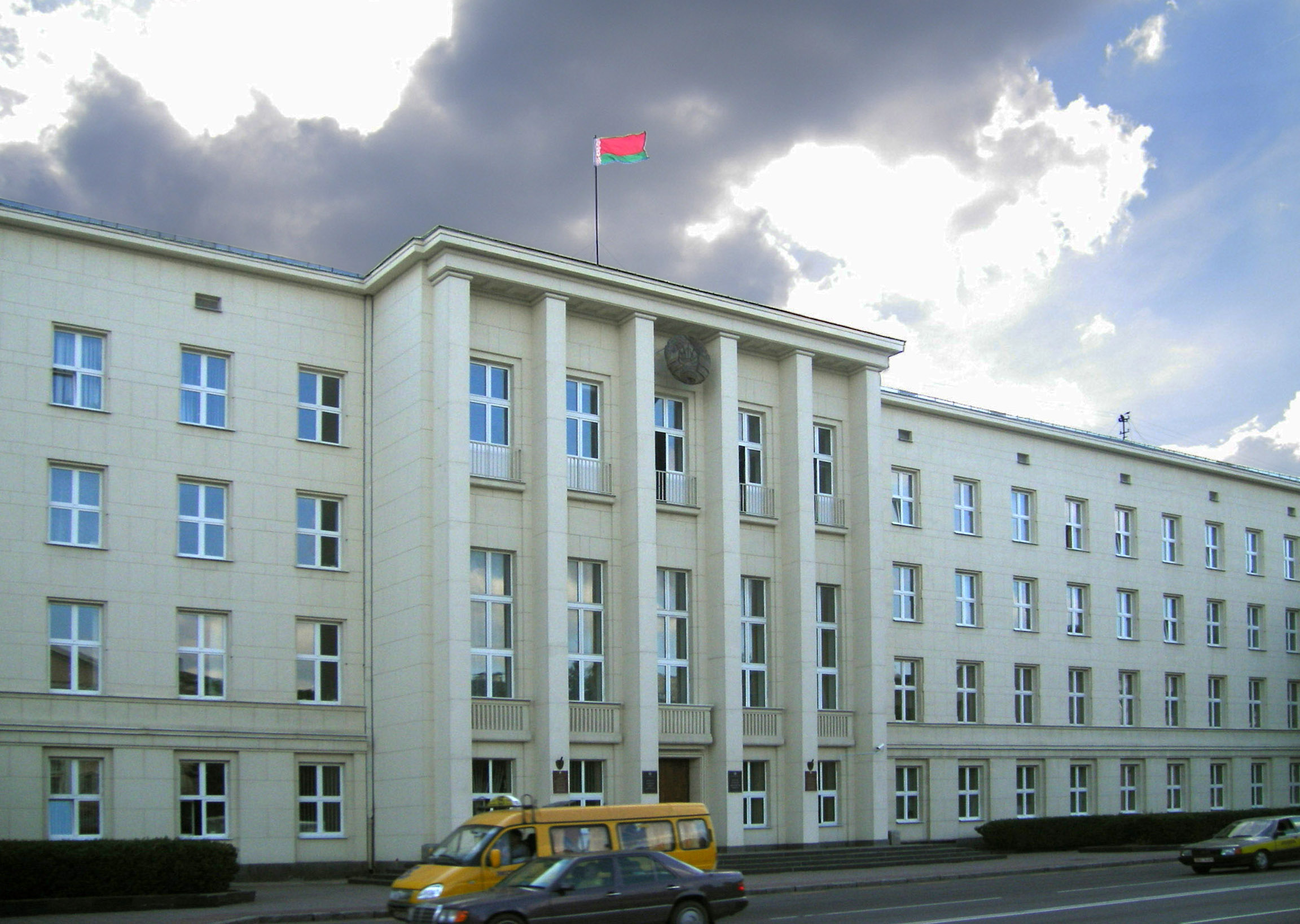 Brest, Oblast Administration Building